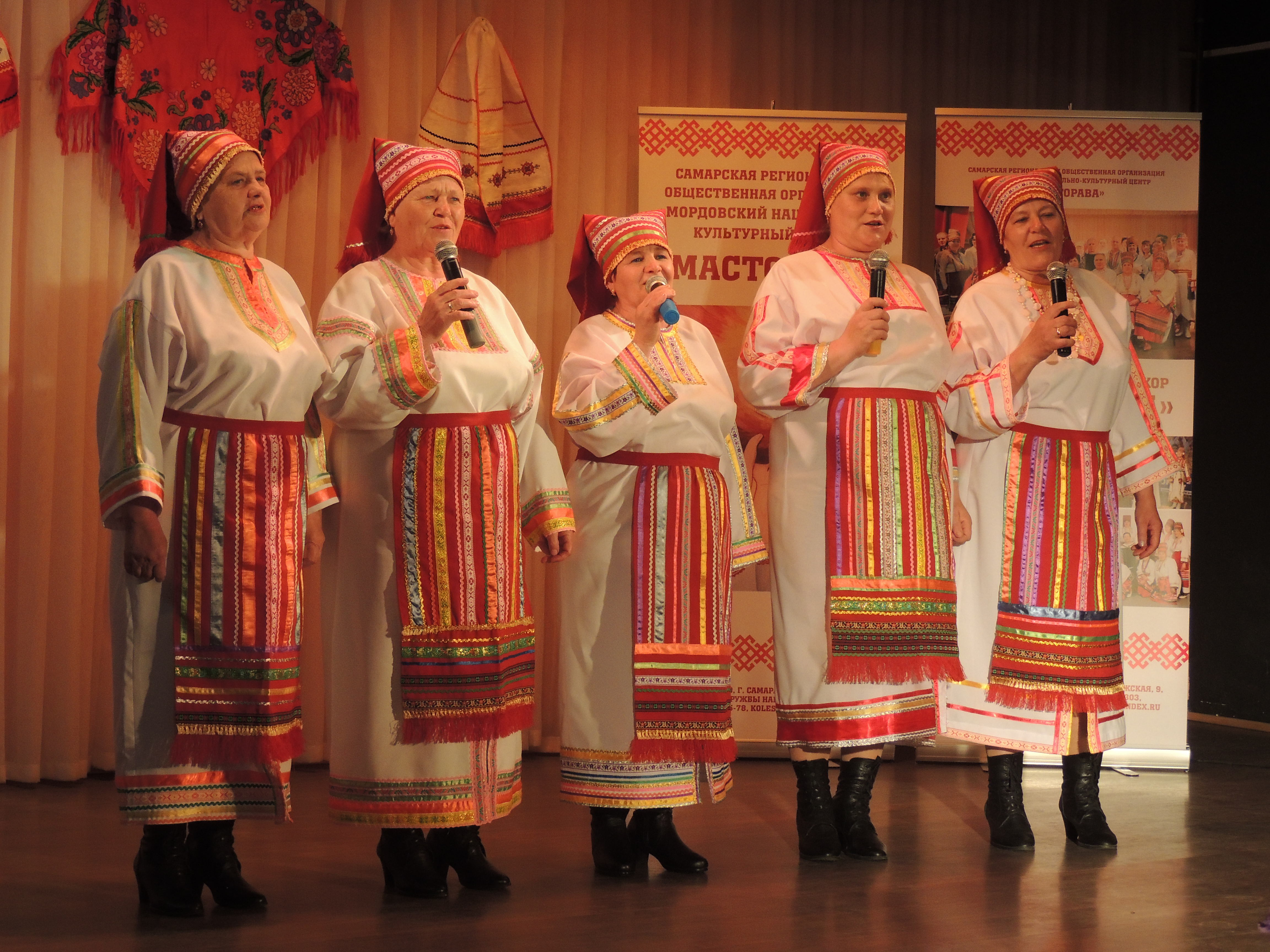 Creative team «Okolitsa» (erz. «Velepe») Stepno-Shentalinsky rural House of Culture of the Koshkinsky district of the Samara region. XIX Regional Festival «Spring of Mastorava» (erz. «Mastoravanj tundo»). «Friendship House of Peoples», Samara. May 21, 2017.